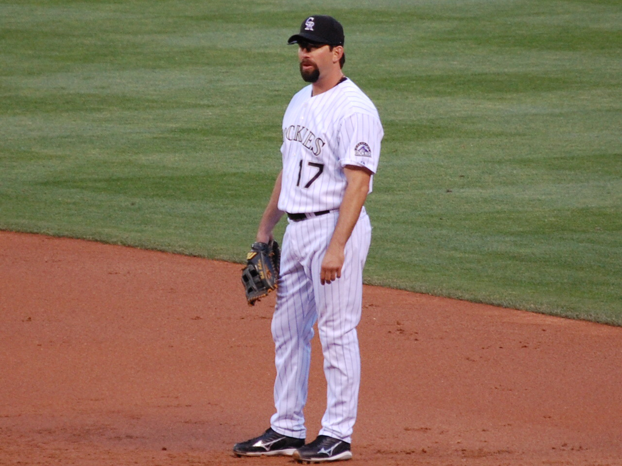 gfdl, own work 11:31, 4 June 2007 . . Onetwo1 . . 1280×960 (345,870 bytes)